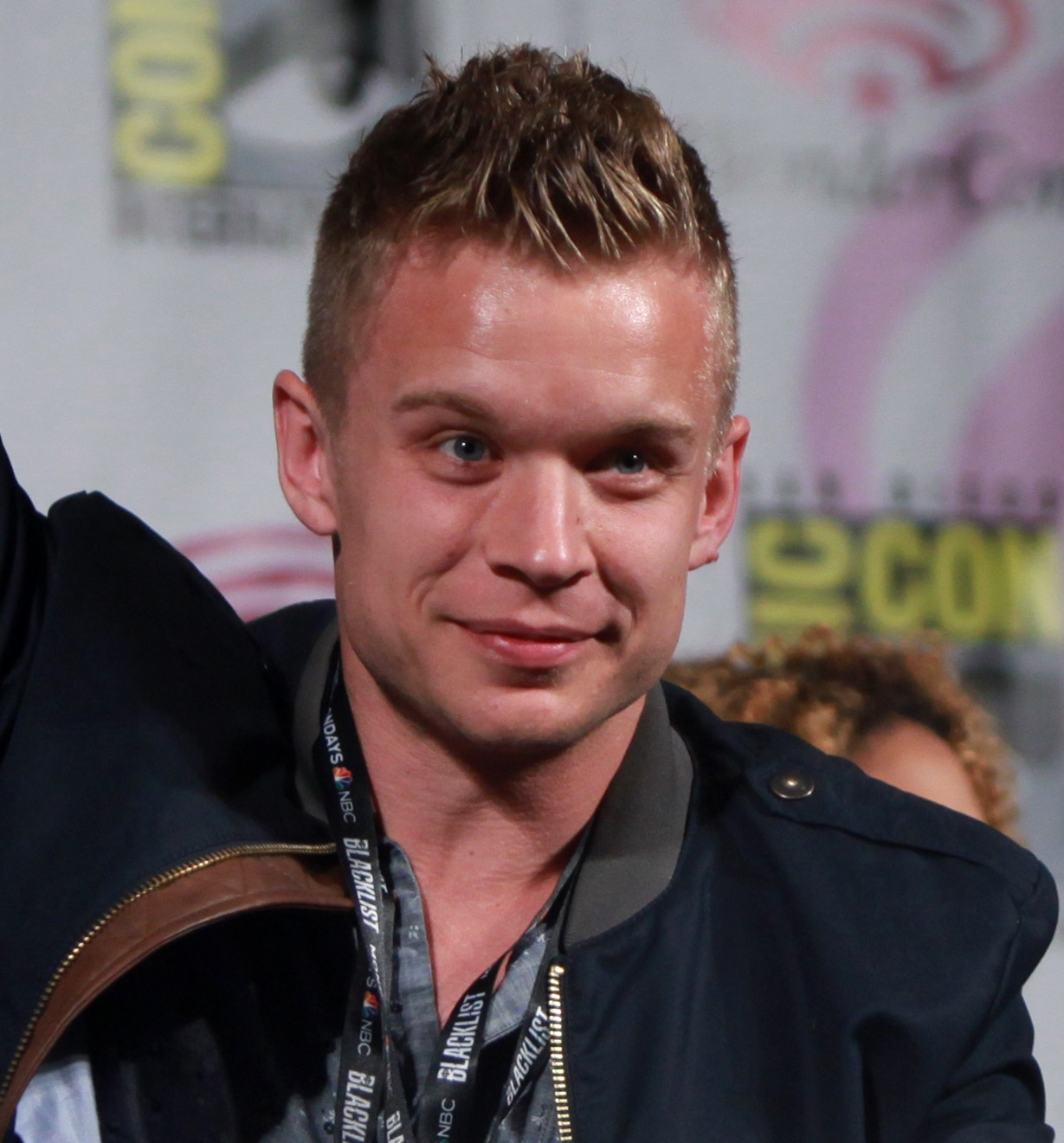 Jesse Luken speaking at the 2014 WonderCon, for "Star-Crossed", at the Anaheim Convention Center in Anaheim, California.